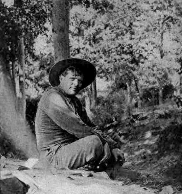 A photograph of author Jack London, on his ranch in Sonoma County, California. In Sunset (magazine), in the August 1914 issue.